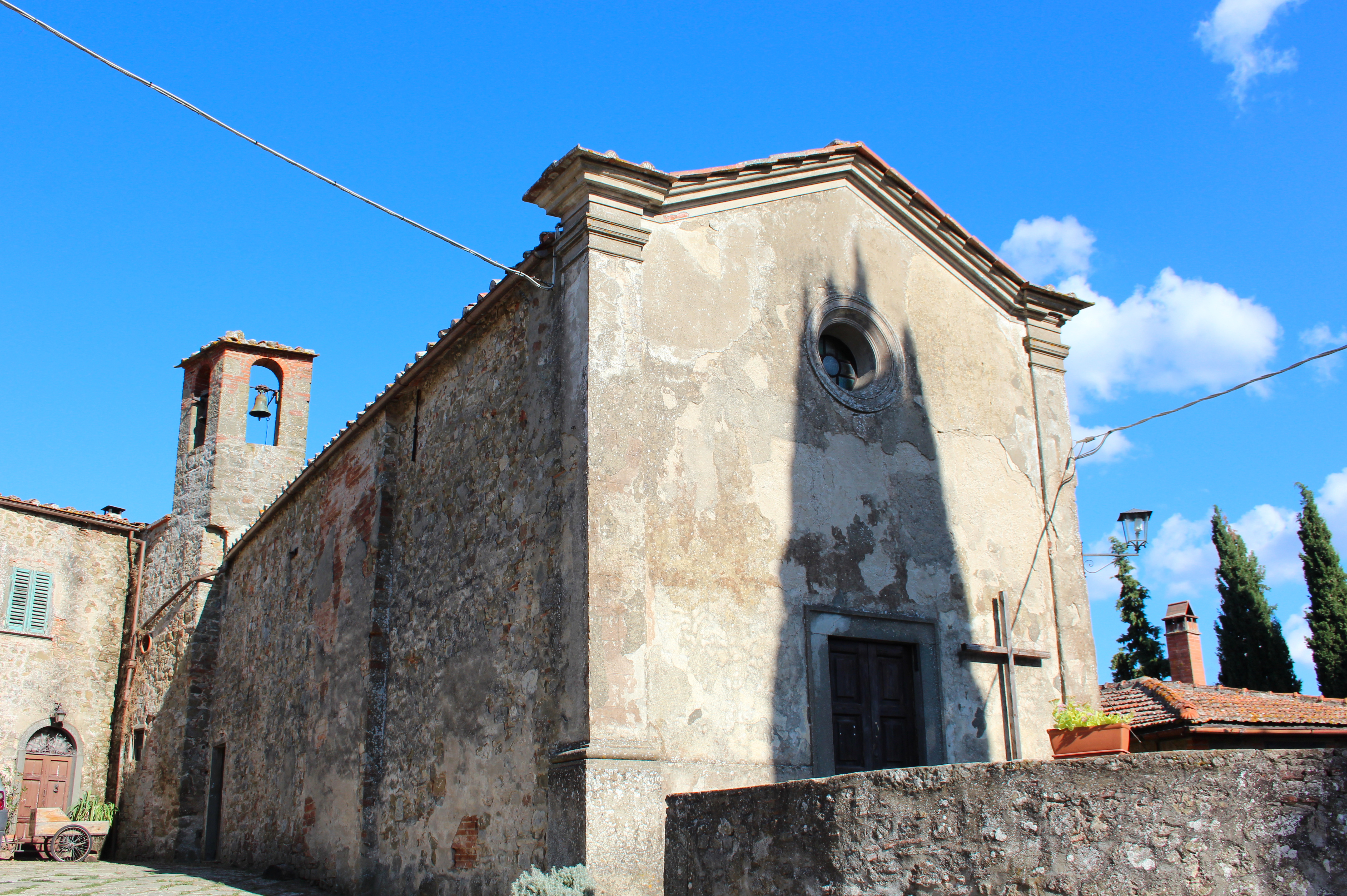 Church San Martino a Starda, in Starda (Castello di Starda), hamlet of Gaiole in Chianti, Province of Siena, Tuscany, Italy